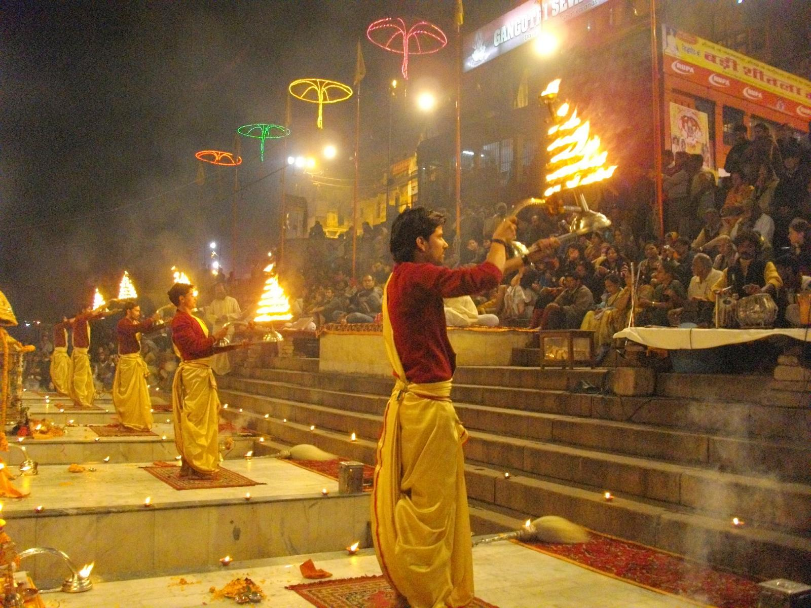 Evening Ganga Aarti, at Dashashwamedh ghat, Varanasi.